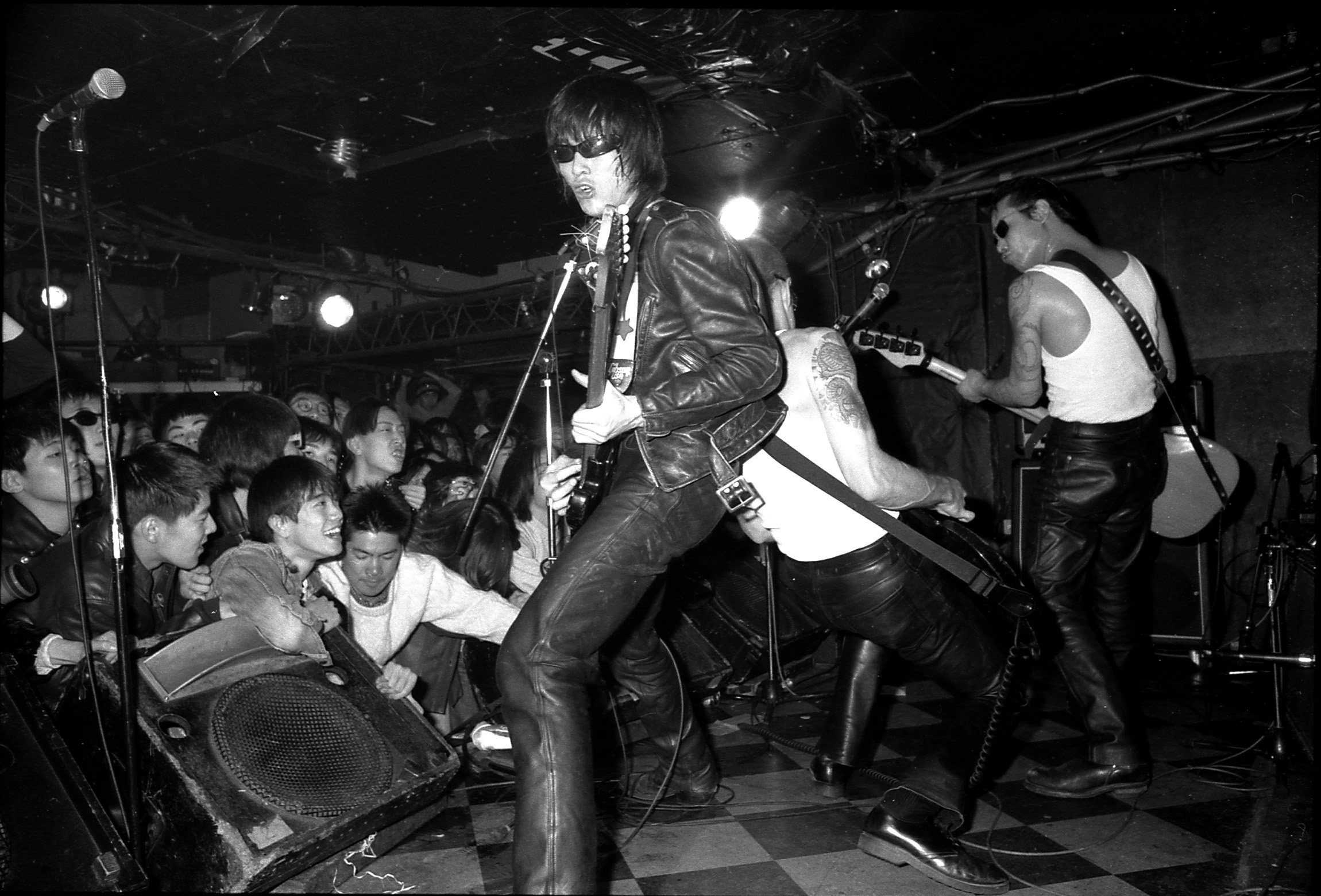 dec.31.1995,at Shelter club Tokyo. this new years eve gig for Teengenerate's last gig. Giutar Wolf is a opnieng act for Teengenerate guest guitarist is Jon Von from Rip Offs